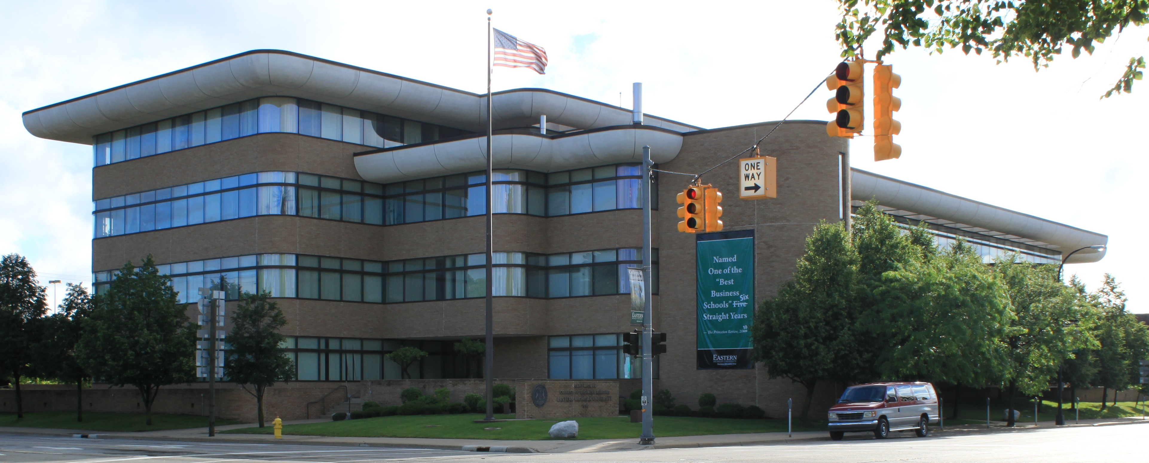 Gary M. Owen College of Business Building, Eastern Michigan University, downtown Ypsilanti